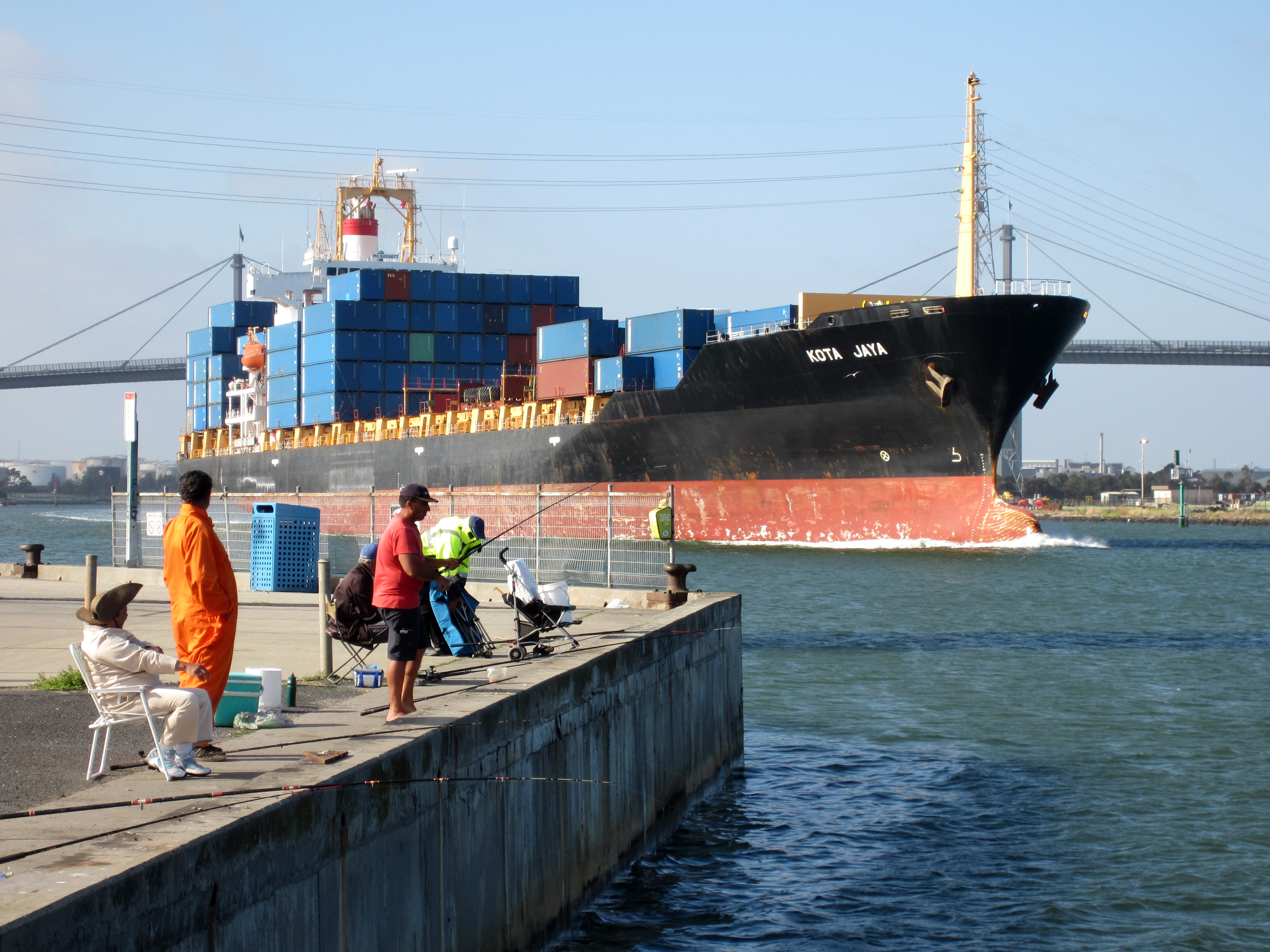 Ship, Newport, Victoria